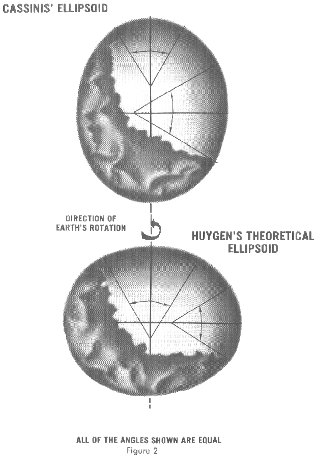 taken from the public domain source Geodesy for the Layman at